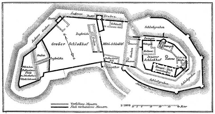 Floor plan of the castle ruin Greifenstein in Thuringia.